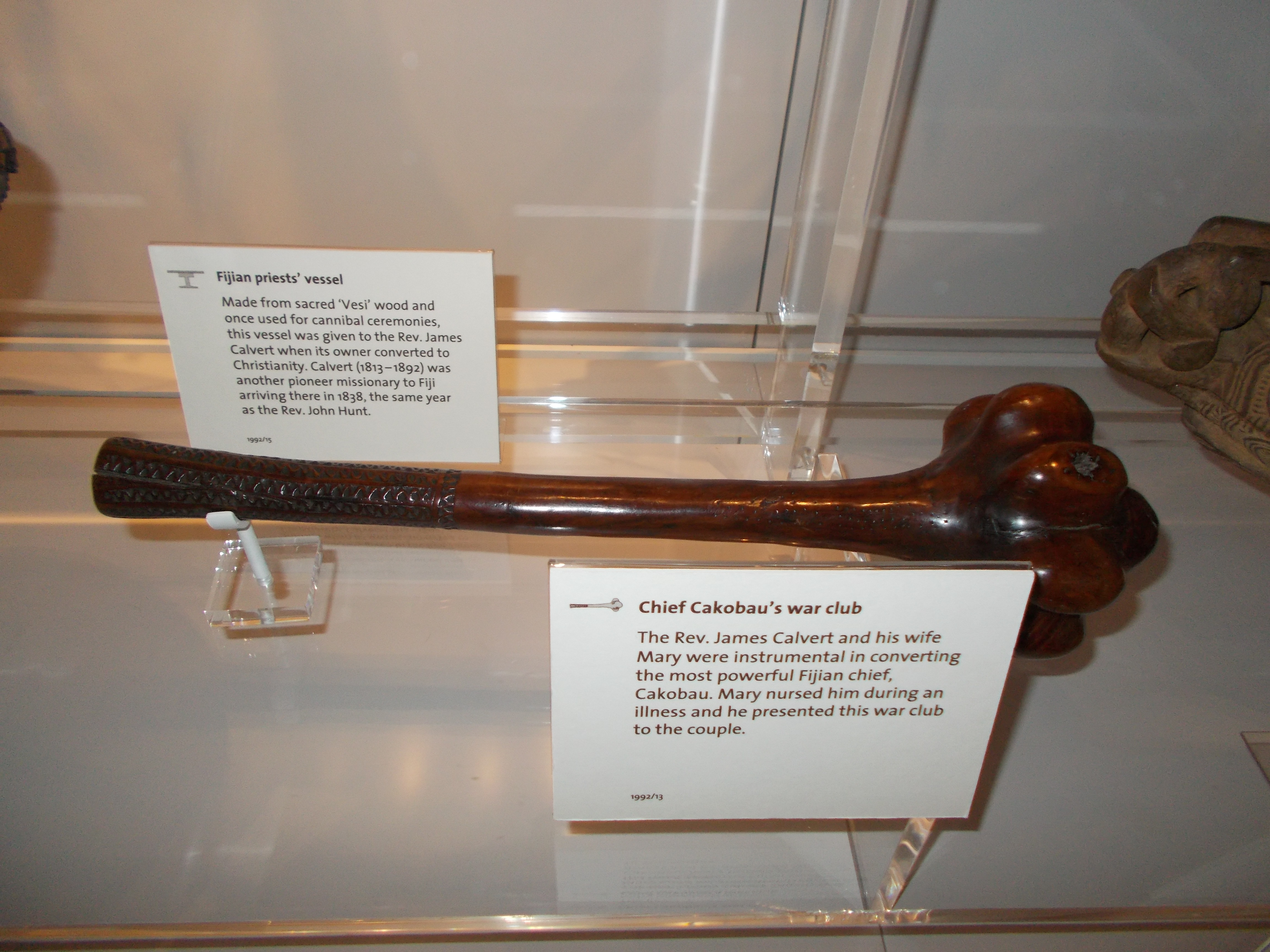 Fijian War Club in Museum of Methodism